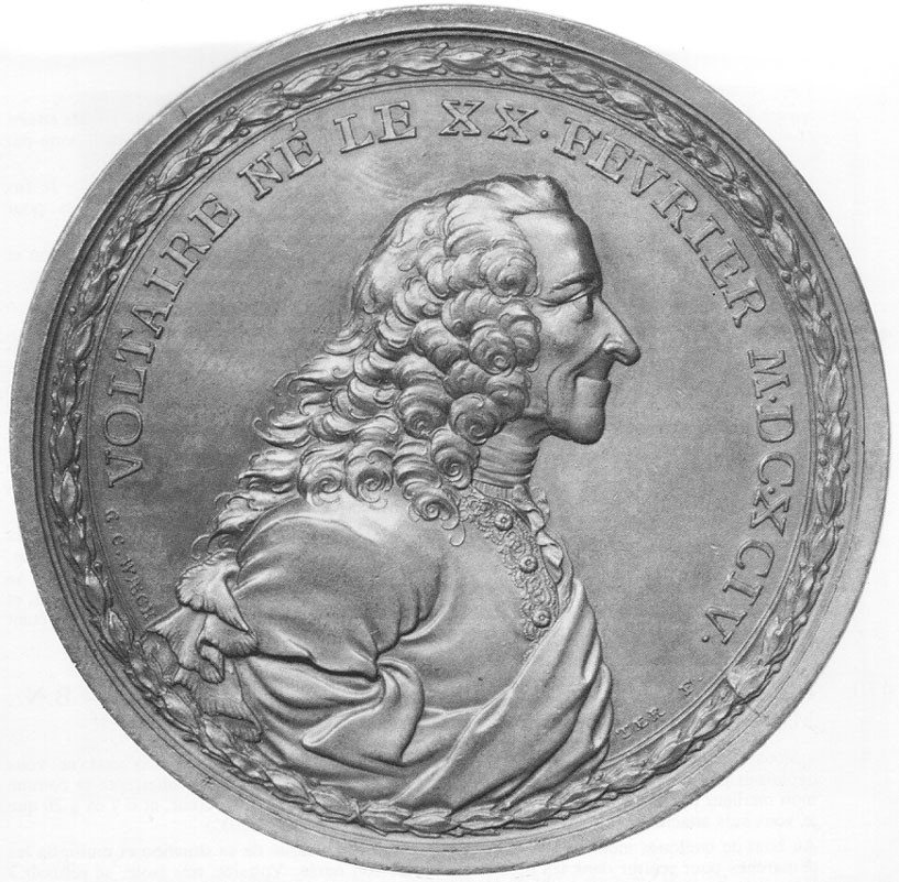 Medal depicting Voltaire